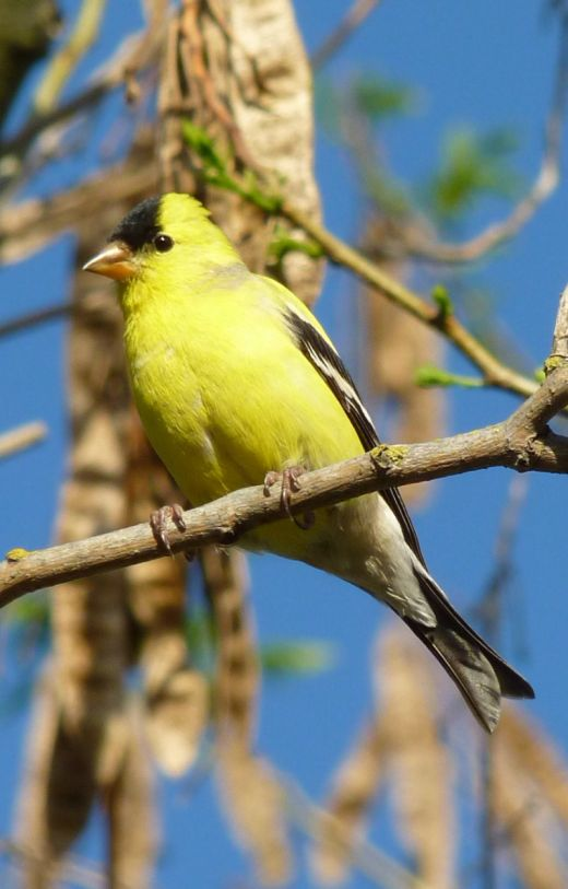 Male American Goldfinch (Spinus tristis). Photo taken at my residence in Lodi, in the northern San Joaquin Valley, California.